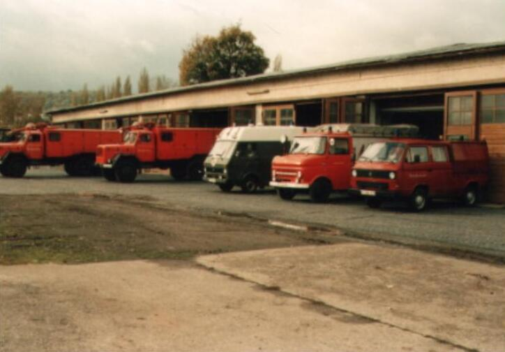 German Armed Forces Fire Dept.